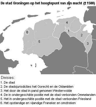 The area's under the authority of the city of Groningen around 1500